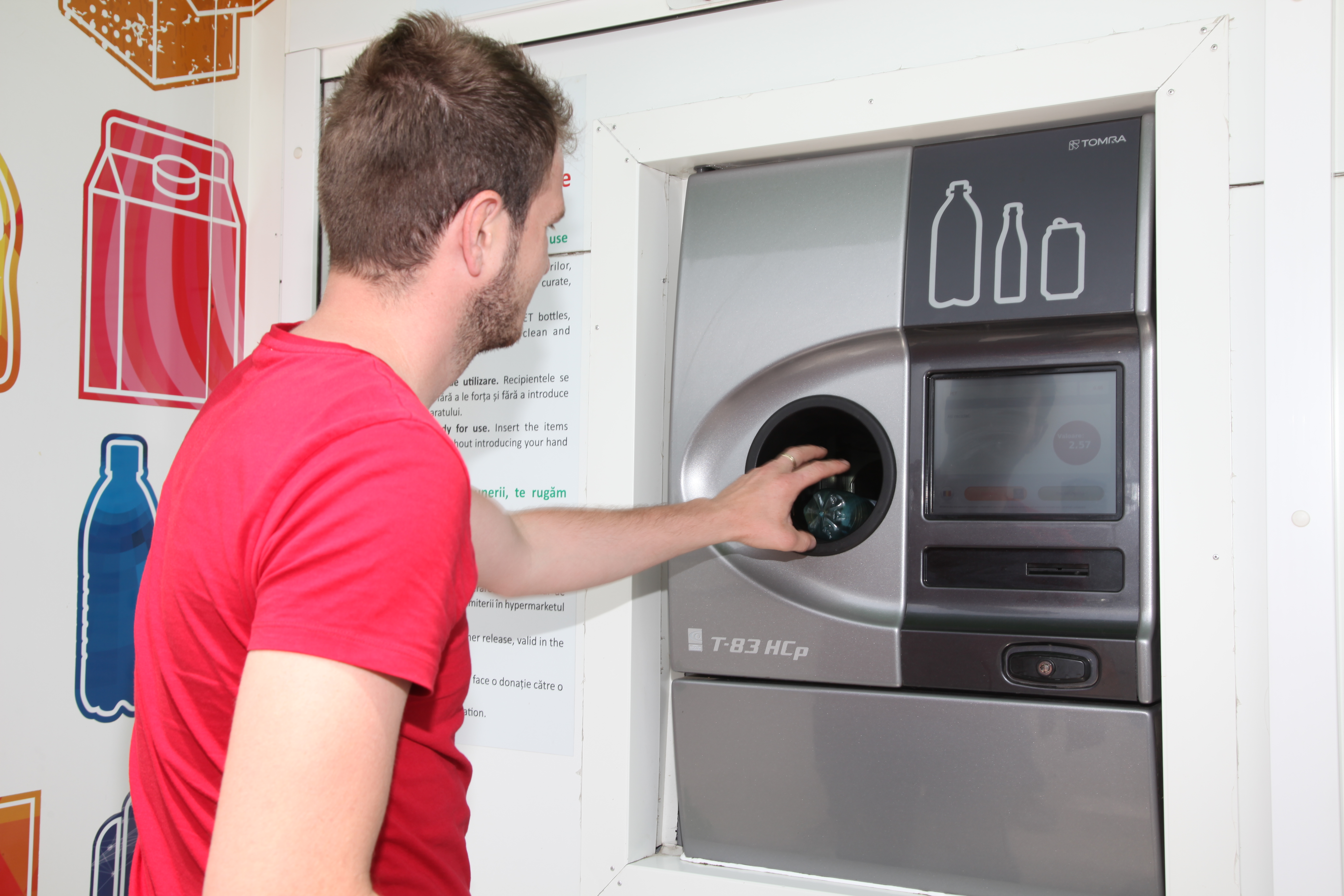 Romania has the lowest recycling rates in the EU. Total Waste Management has established 25 collection points across the country in cooperation with the Norwegian companies Tomra and Orwak. Each collection point generates 2-5 jobs. The project is funded through Norway Grants.